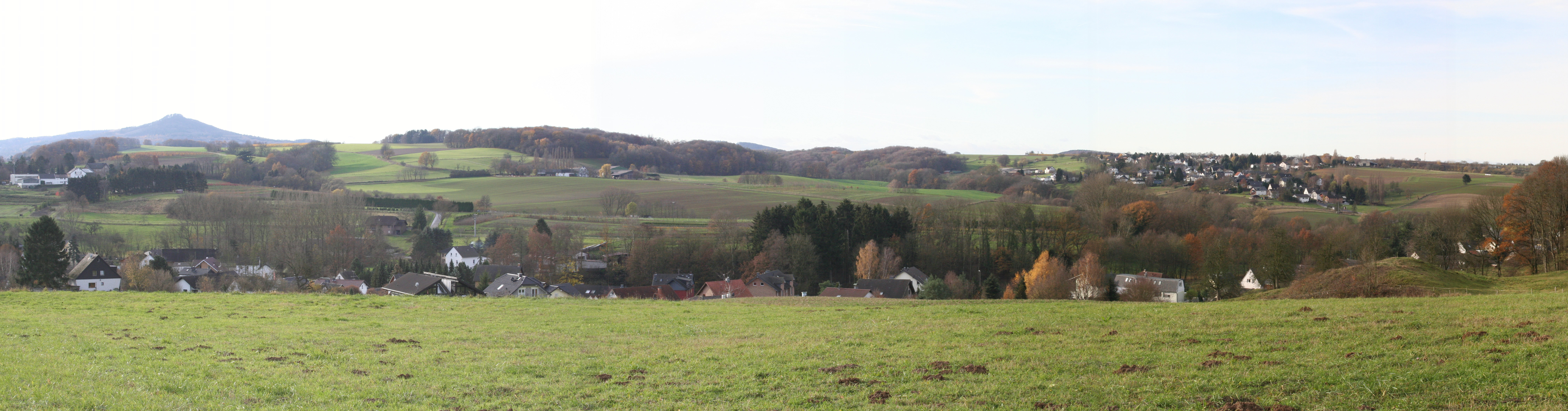 situation of Bockeroth (on the right side in the distance) in the Siebengebirge, seen from Northwest